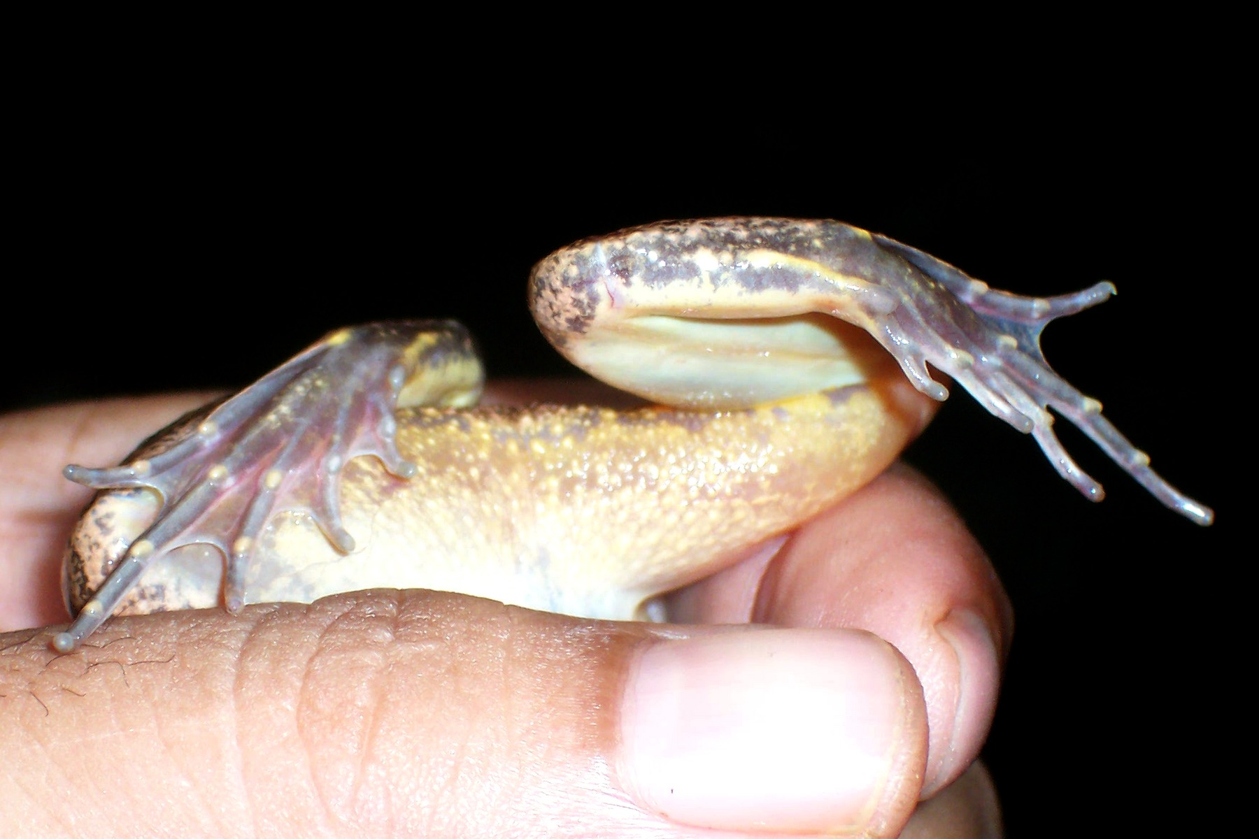 Fejervarya limnocharis without vertebral line or stripe; female; showing toes, and anal region. From Bogor, West Java, Indonesia.